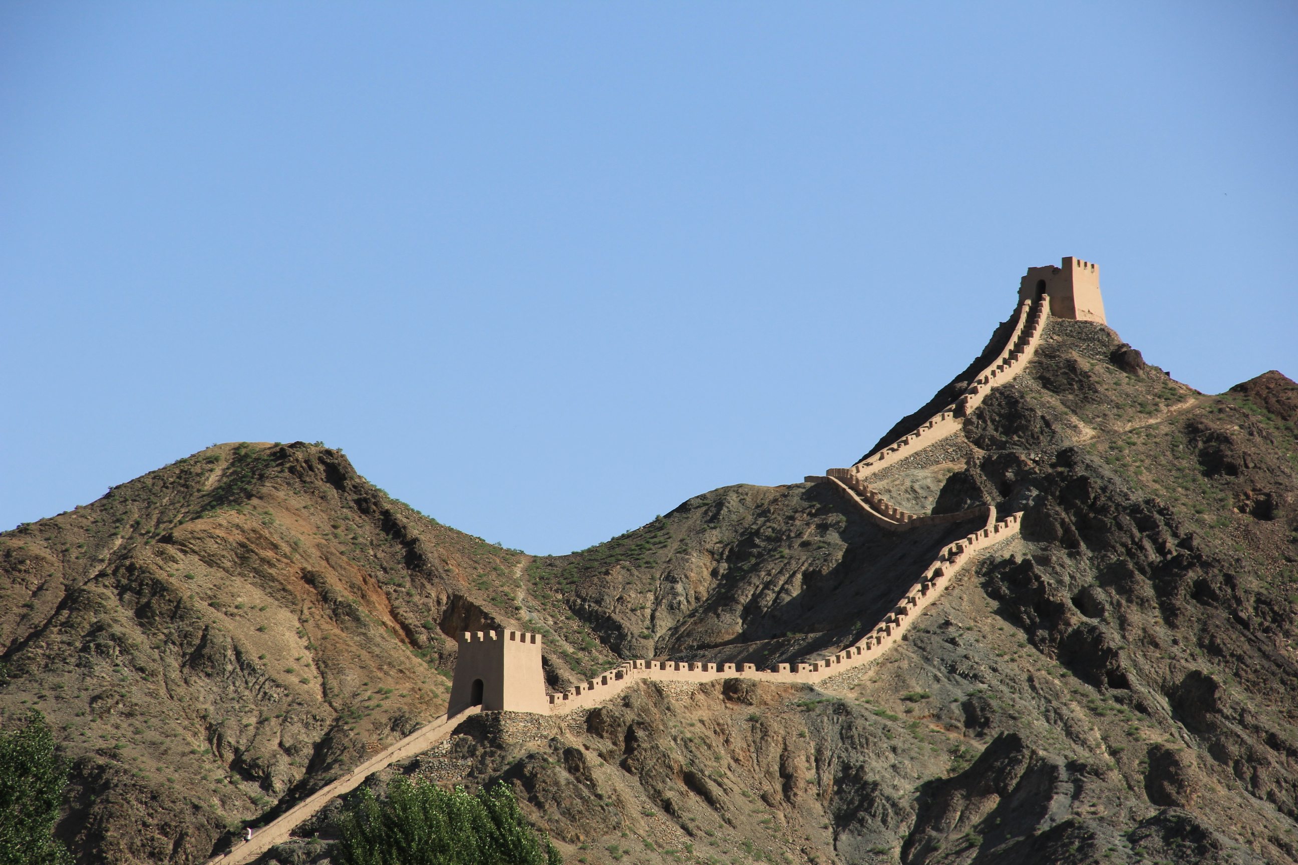 Great Wall of Ming Dynasty in Jiayuguan City,Gansu Province